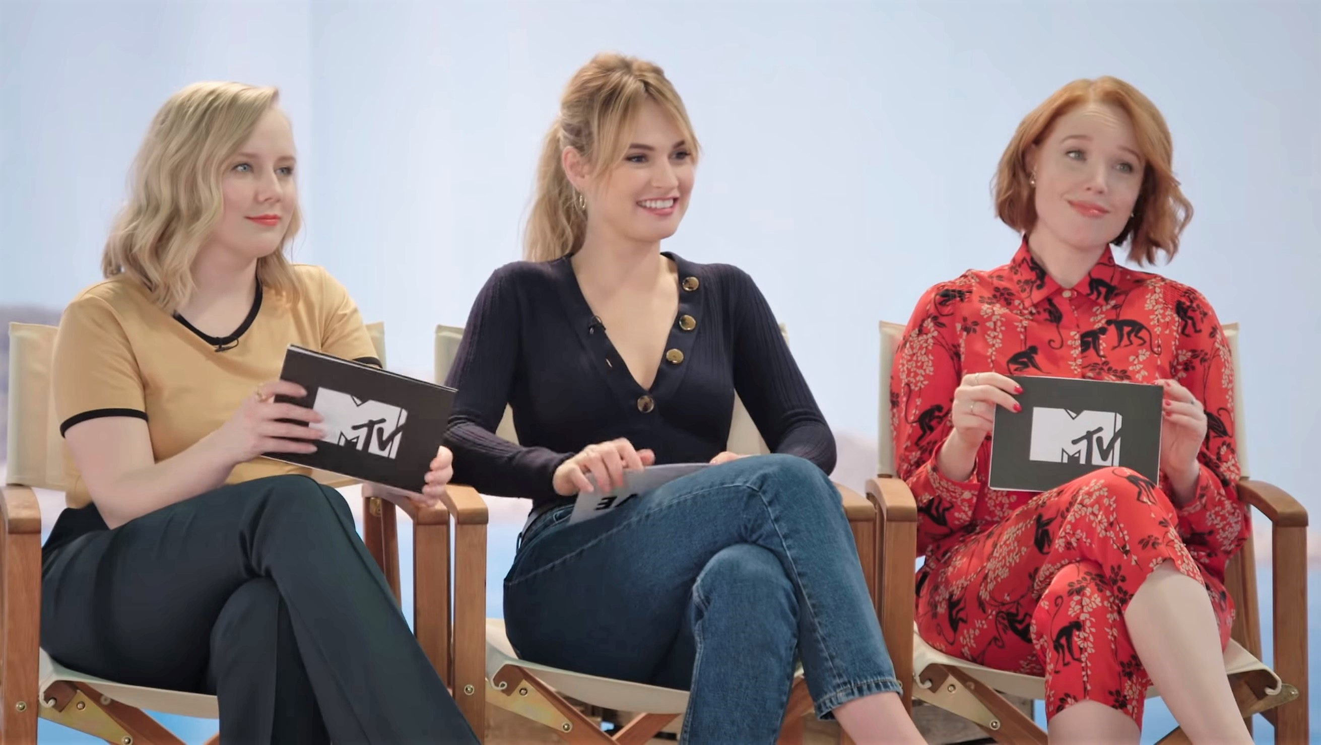 Mamma Mia! Here We Go Again Cast Play Never Have I Ever: ABBA Edition | MTV Movies Left to right: Alexa Davies, Lily James, Jessica Keenan Wynn. Who’s been FER NANDOs? And who’s found themselves looking for a MAN AFTER MIDNIGHT? Lily James, Jeremy Irvine and the cast of Mamma Mia 2 reveal all as they play a hilarious game of NEVER HAVE I EVER: ABBA Edition! Subscribe to MTV for more great videos and exclusives! Get social with MTV @ 💋 Twitter: 🍺 Instagram: 💅 Tumblr: 🍿 Facebook: 🎷 Official